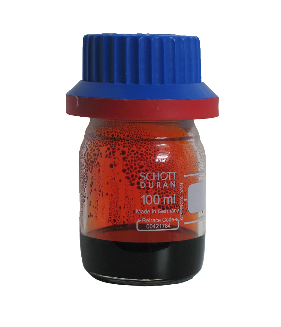 25 milliliters of bromine, a liquid at room temperature